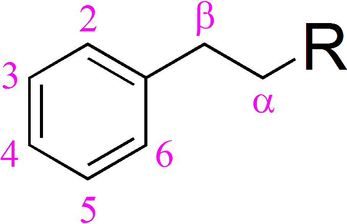 The phenethyl group with locant set in lilac